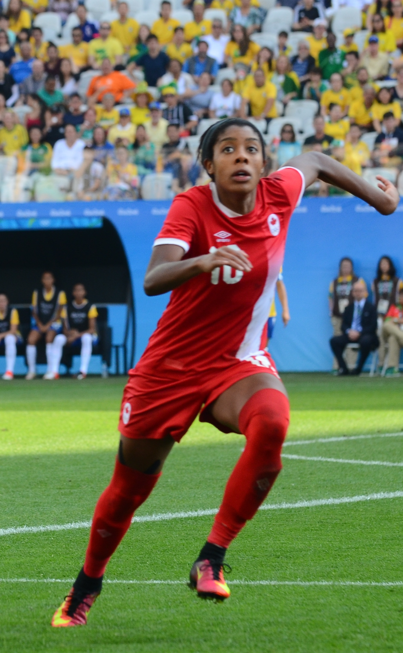 Canadian player Ashley Lawrence in São Paulo, during Rio 2016 match BRA vs CAN for bronze medal (won by Canada) (Rovena Rosa/Agência Brasil)